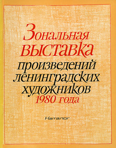 Cover of the catalog of Zonal Exhibition of works by Leningrad artists of 1980